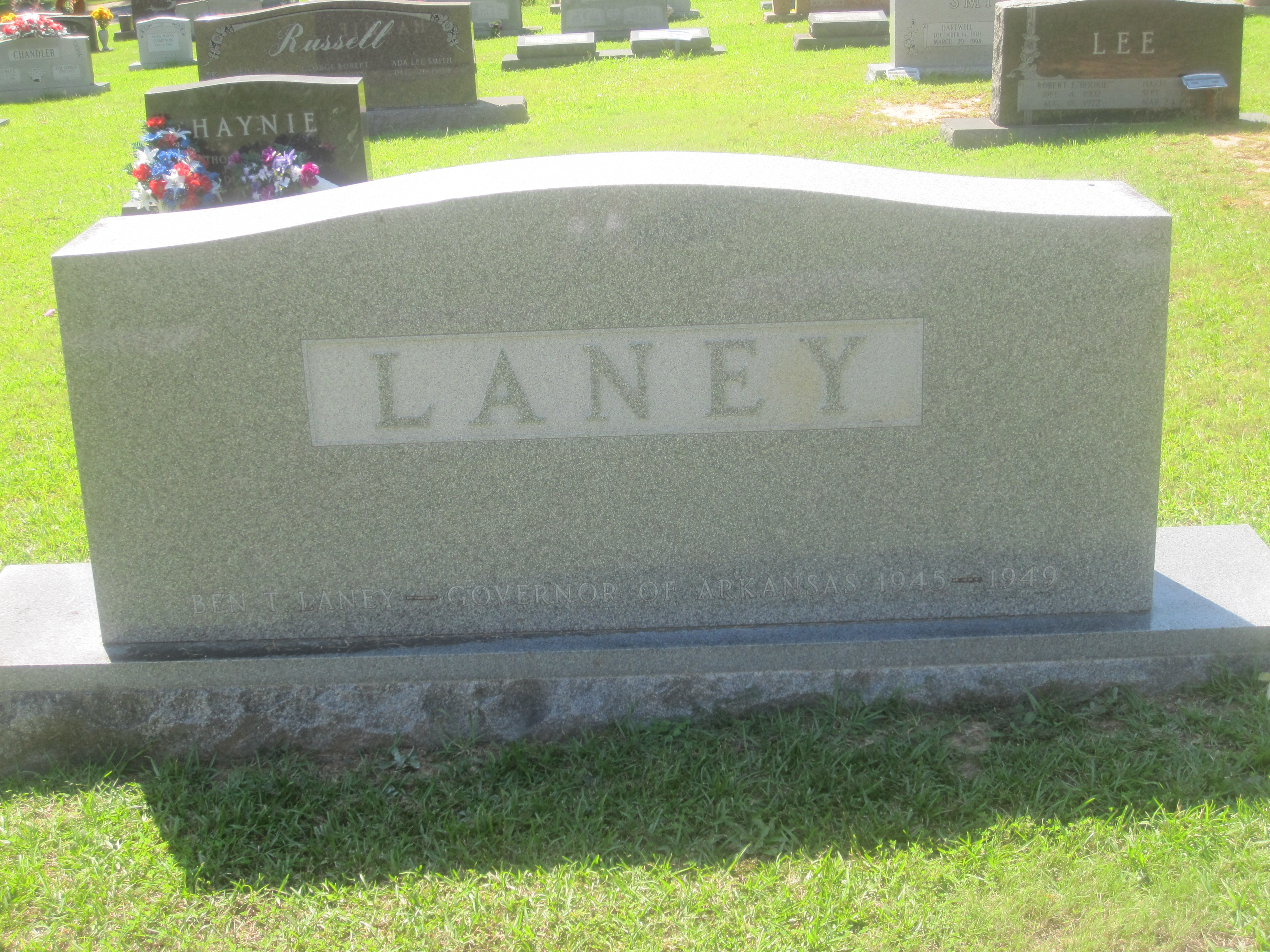 Tombstone of Benjamin Laney, former AR governor